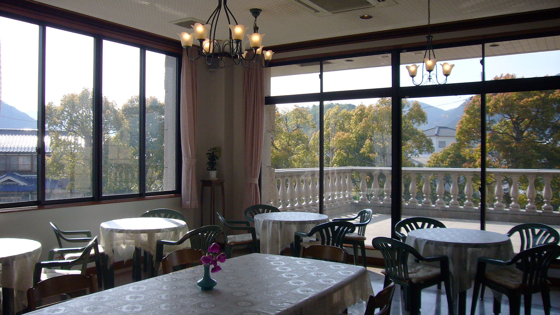 Tamba Municipal Ueno Memorial Art Museum in Tamba, Japan